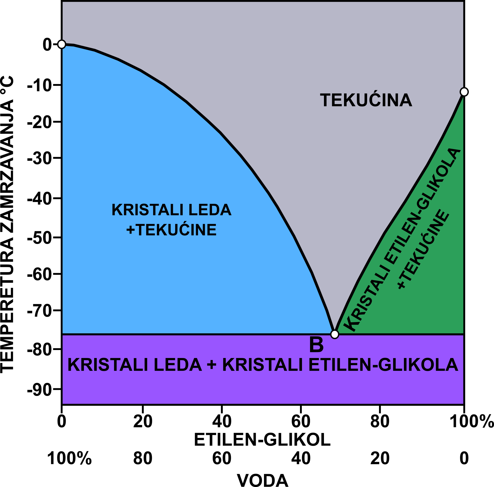 Crystallization curve for antifreeze of ethylene glycol and water